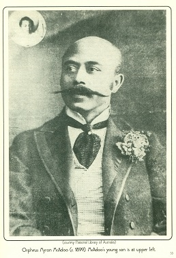 Card of Orpheus Myron McAdoo (4 January 1858 - 17 July 1900), with a picture of his young son inset